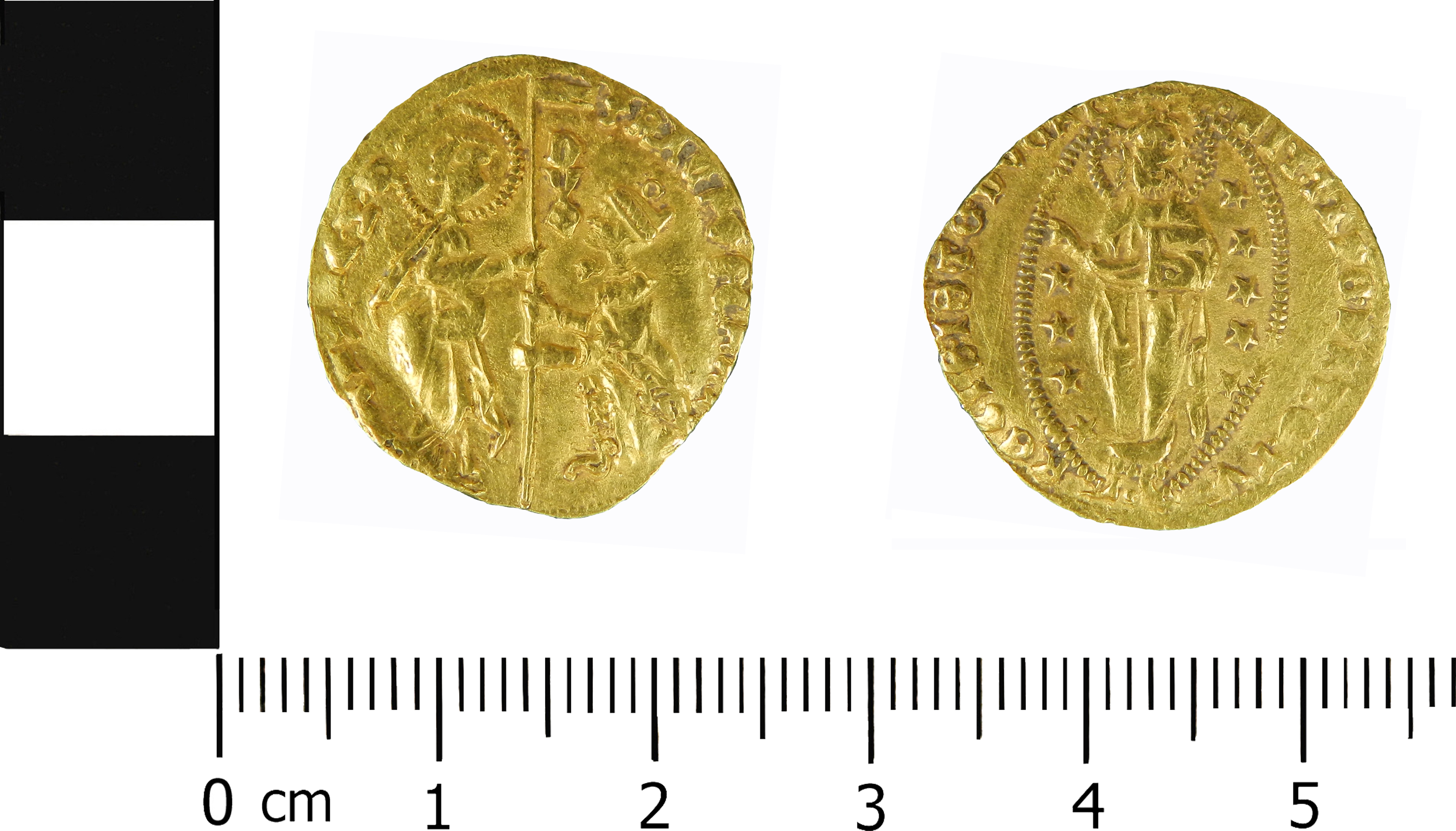 A clipped medieval gold Venetian zecchino of Doge Francesco Foscari (1423-57), minted at the Venetian mint of Zecca. CNI 60-74 (probably 68). Ref: CNI vol.VII (Venice/Venezia). Obverse: FRAC FOSCARI DVX S M VENETI, S. Marco and Doge kneeling, together holding banner. Reverse: SIT T XPE DAT Q TV REGIS ISTE DVCAT, Christ standing facing, raising right hand in benediction, Gospels in left, surrounded by mandorla containing nine stars The reverse legend expands to Sit tibi, Christe, datus, quem tu regis, iste ducatus which translates "To thee, O'Christ, Duchy, which thou rulest, be dedicated. The coin has been clipped. Dimensions: 22mm in diameter, 3.65g.